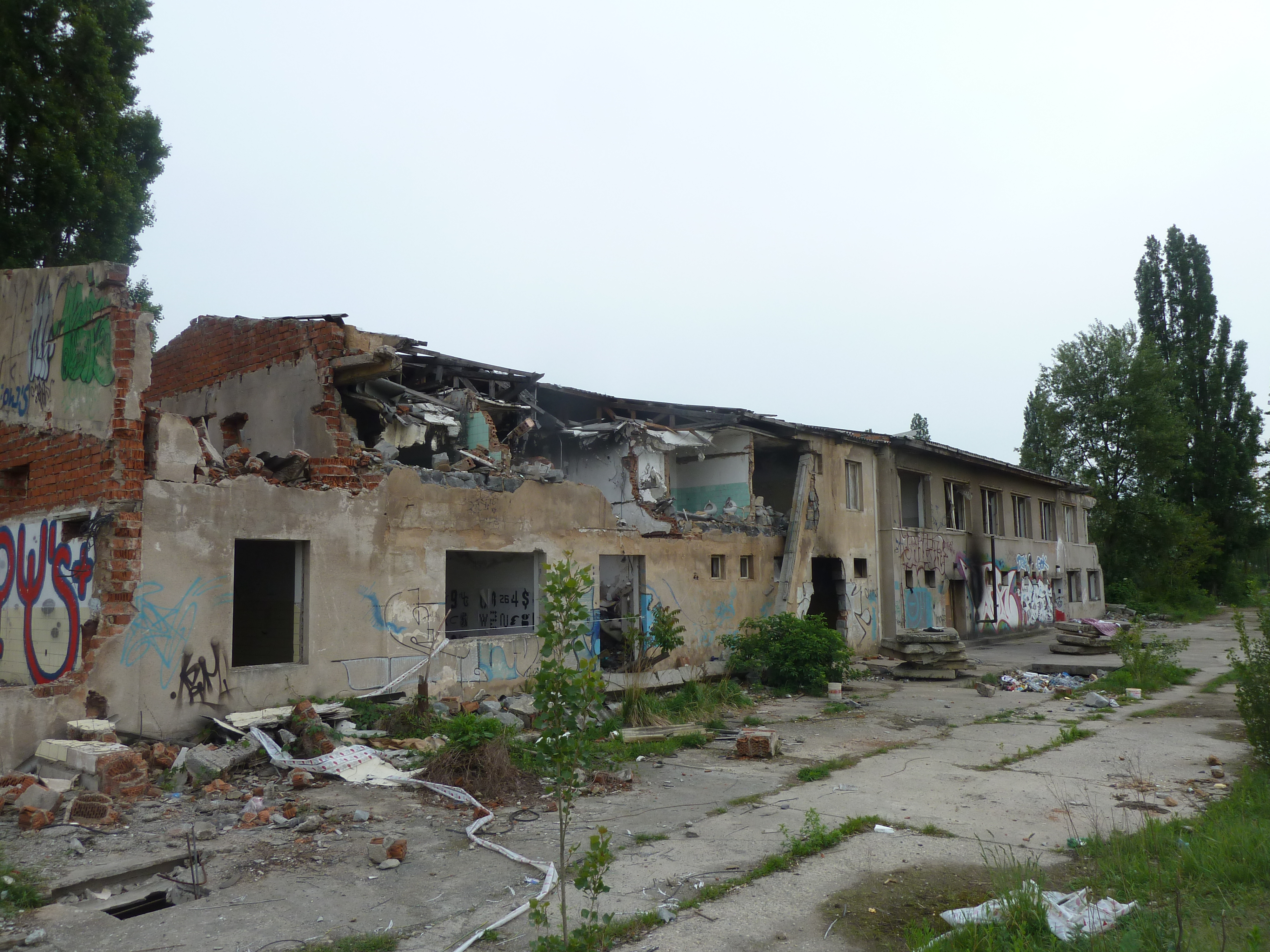 Ruins of building, Rohanský island, Prague